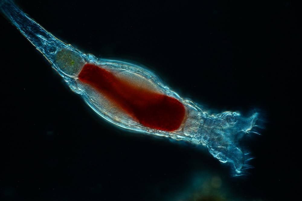 A Rotifera (wheel animal)